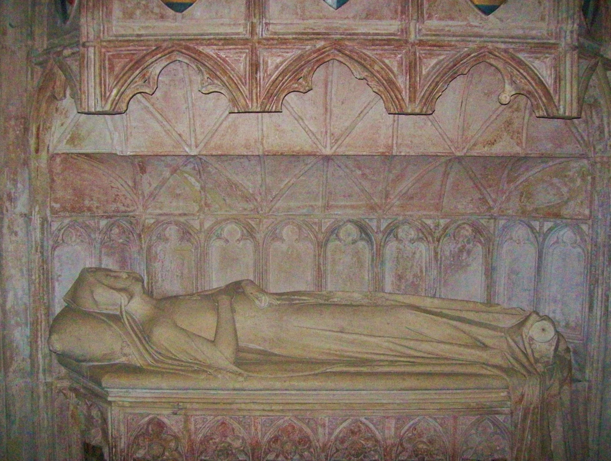 Blanche Mortimer, Much Marcle